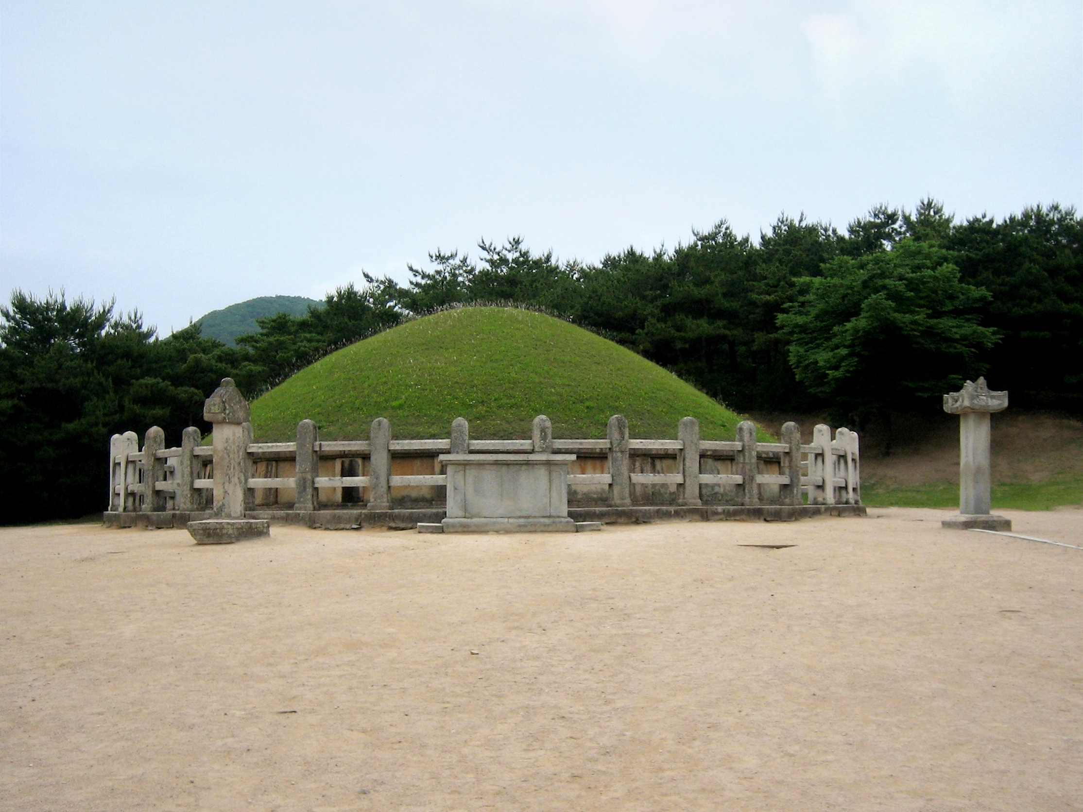 Tomb of General Kim Yusin in Gyeongju, North Gyeongsang province, South Korea